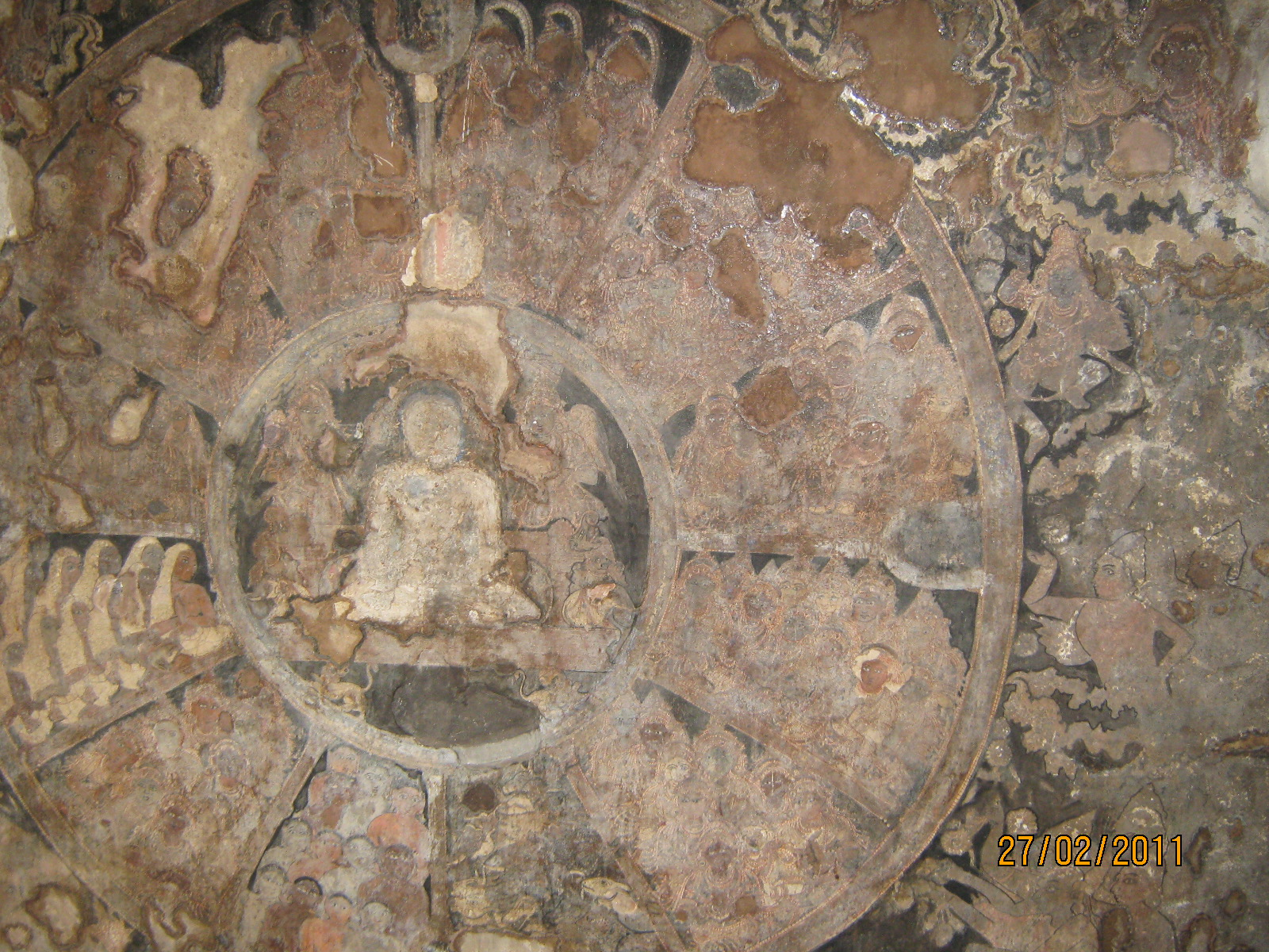 Jain Temple - Tirumalai,Thiruvannamalai Paintings on the wall